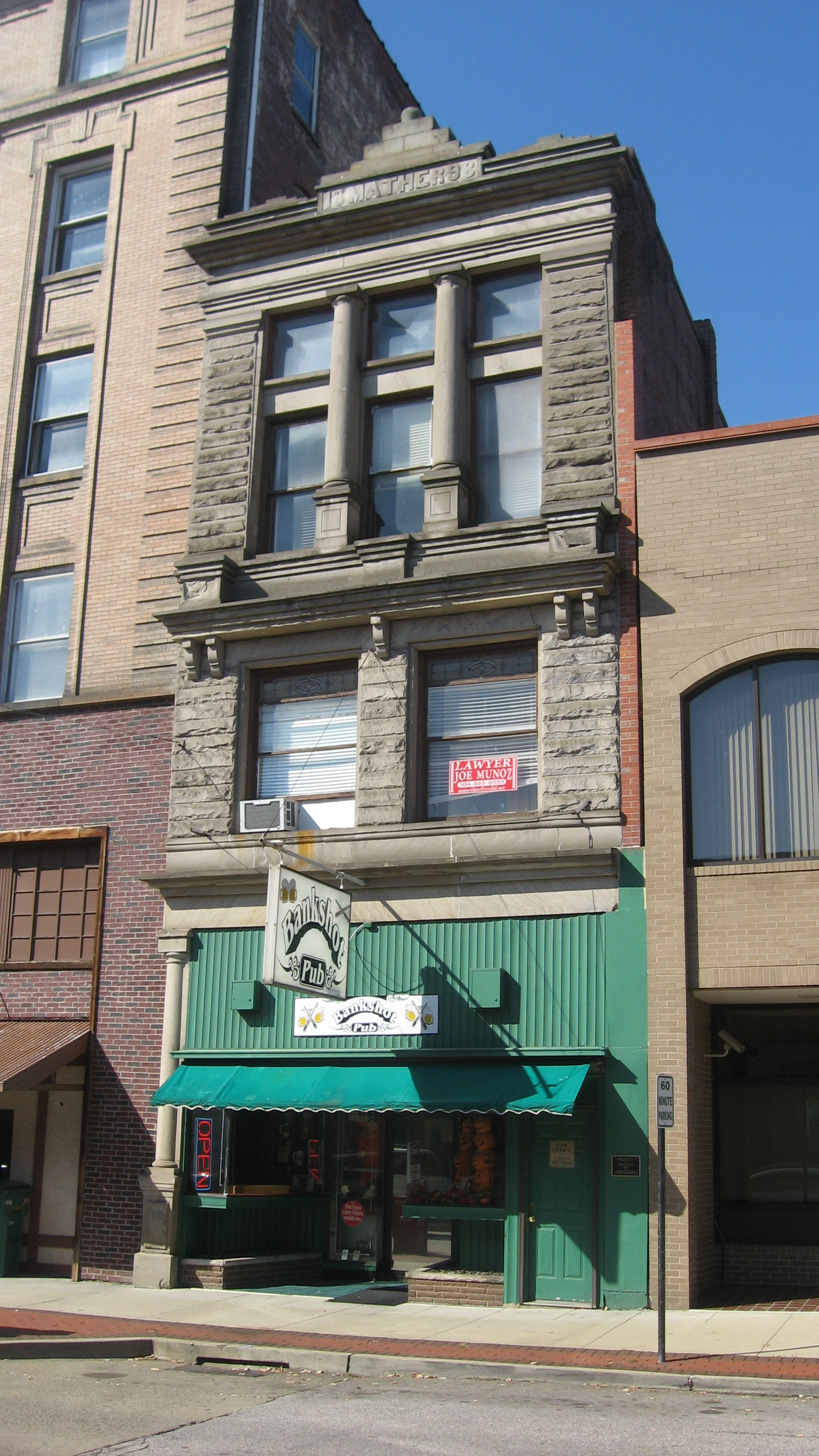 Front of the Mather Building, a former jewellery shop located at 405 Market Street in Parkersburg, West Virginia, United States. Built in 1898, it is listed on the National Register of Historic Places.